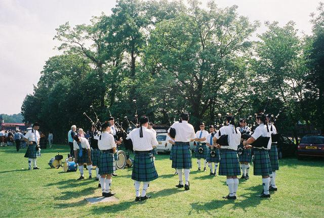 Pipe band practicing at the Strathallan Games. Bridge of Allan, England